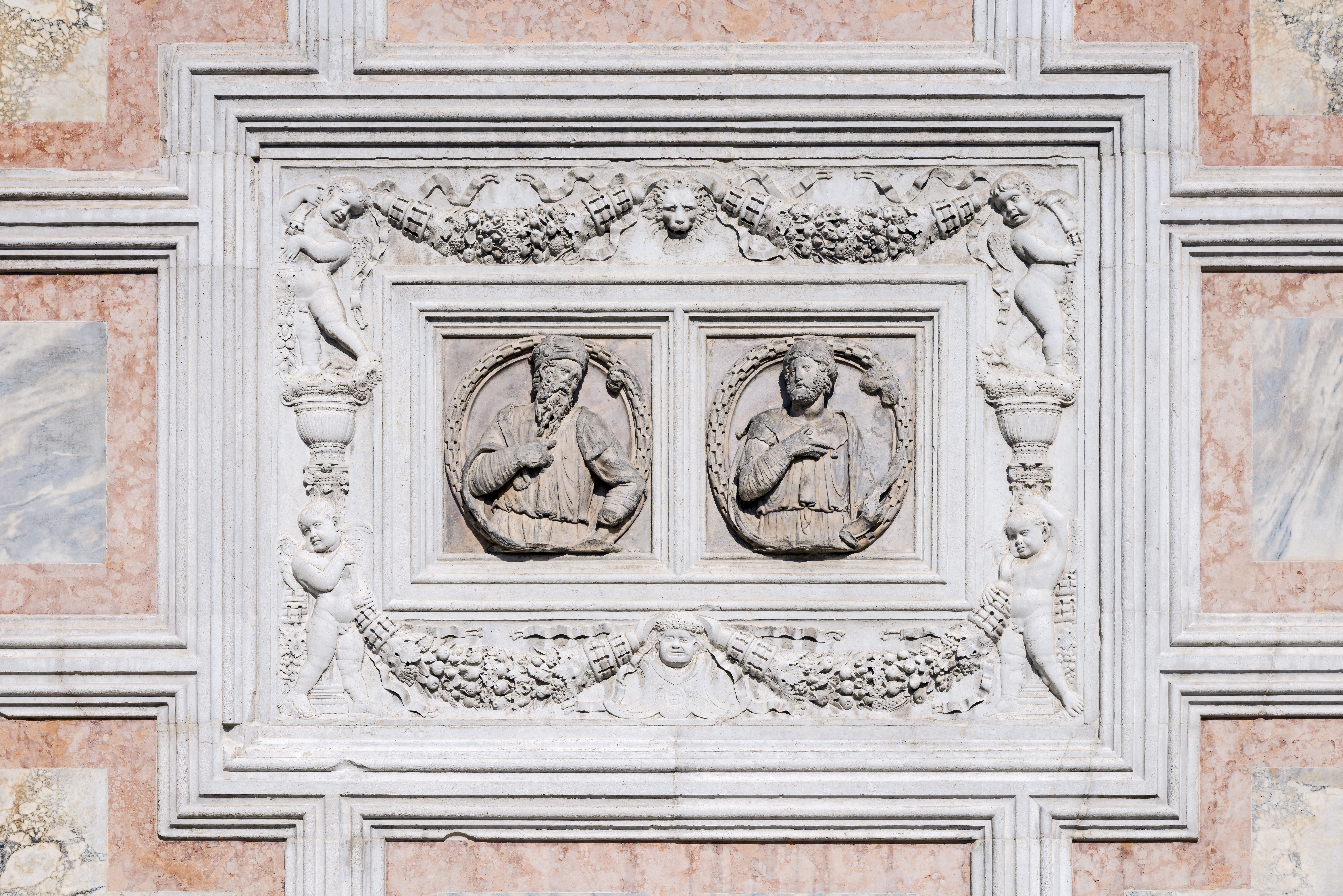 Church of San Zaccaria Venice - North bas-relief on the facade Sculptor : Cristoforo Solari